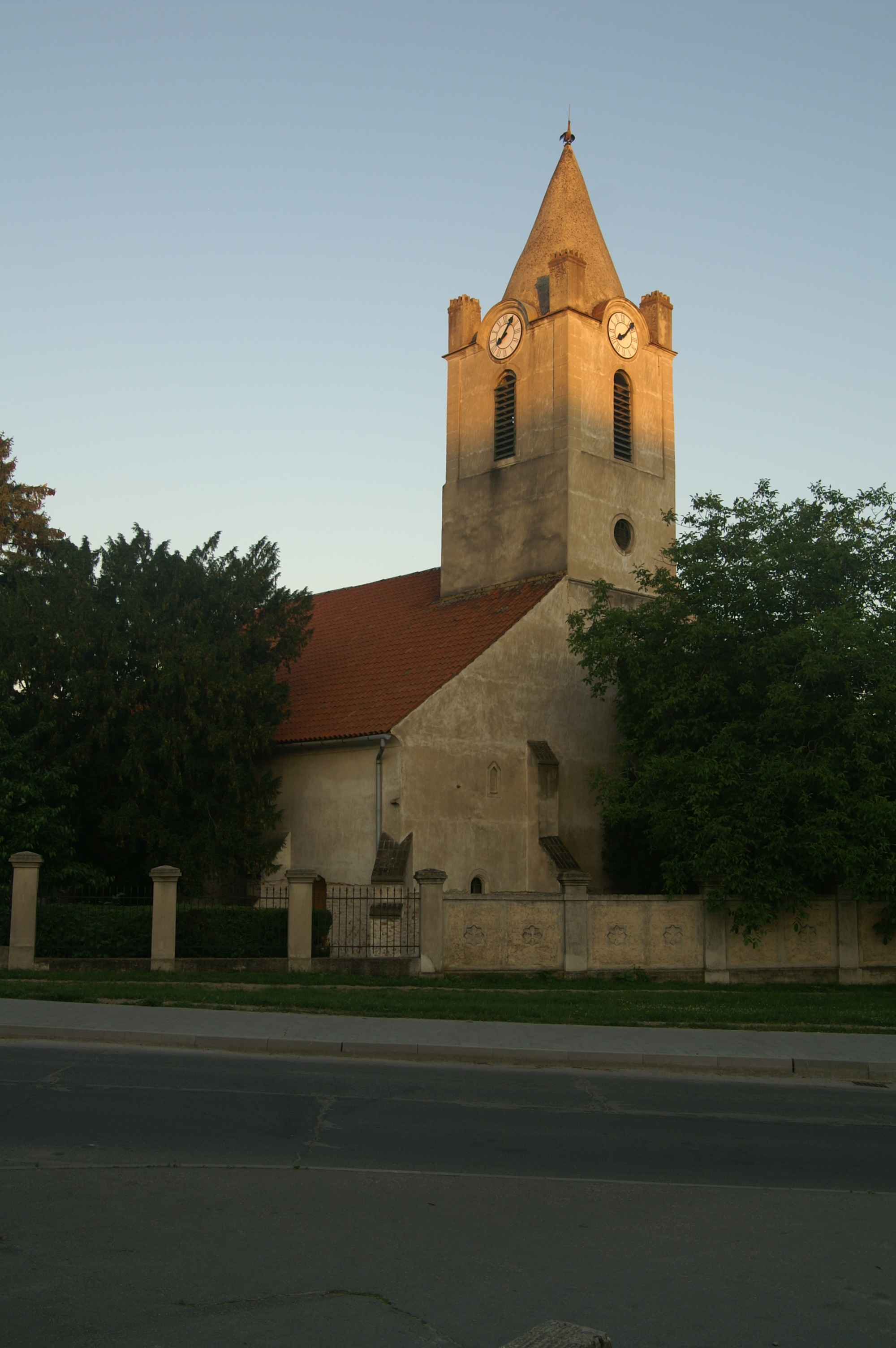 gothic church in samorin